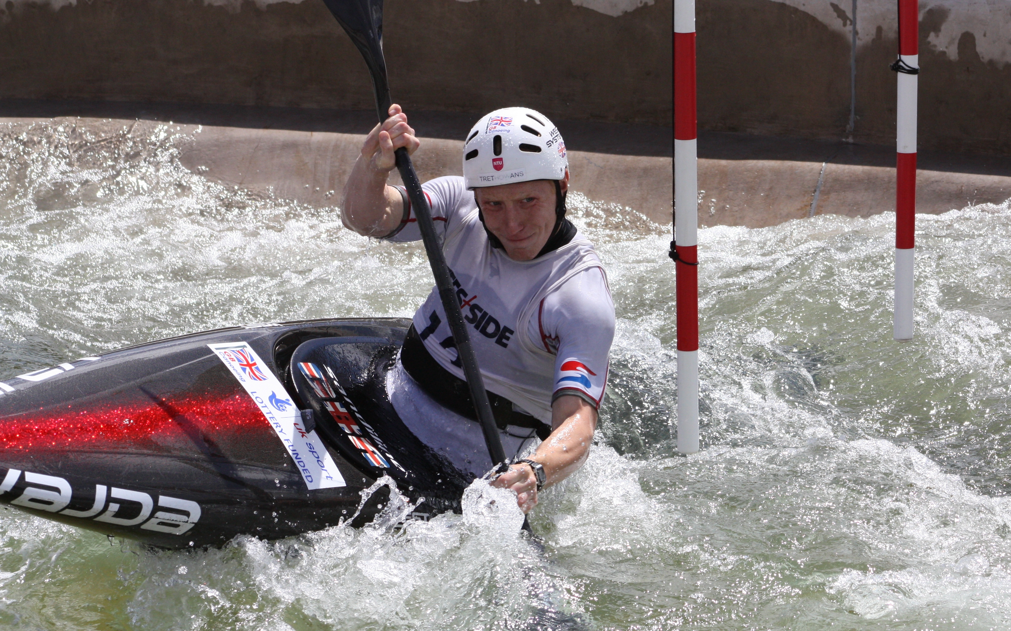 Joe Coombs racing at Cardiff Prem Canoe Slalom Race, Notttingham